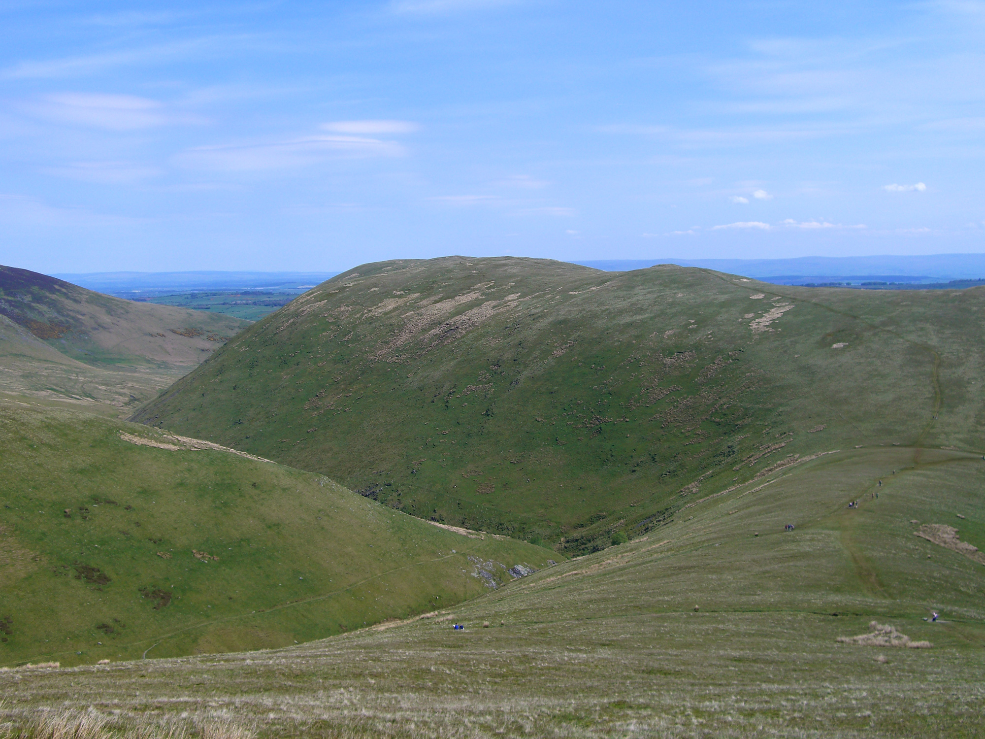 Souther Fell in the English Lake District seen from Scales Fell on Blencathra